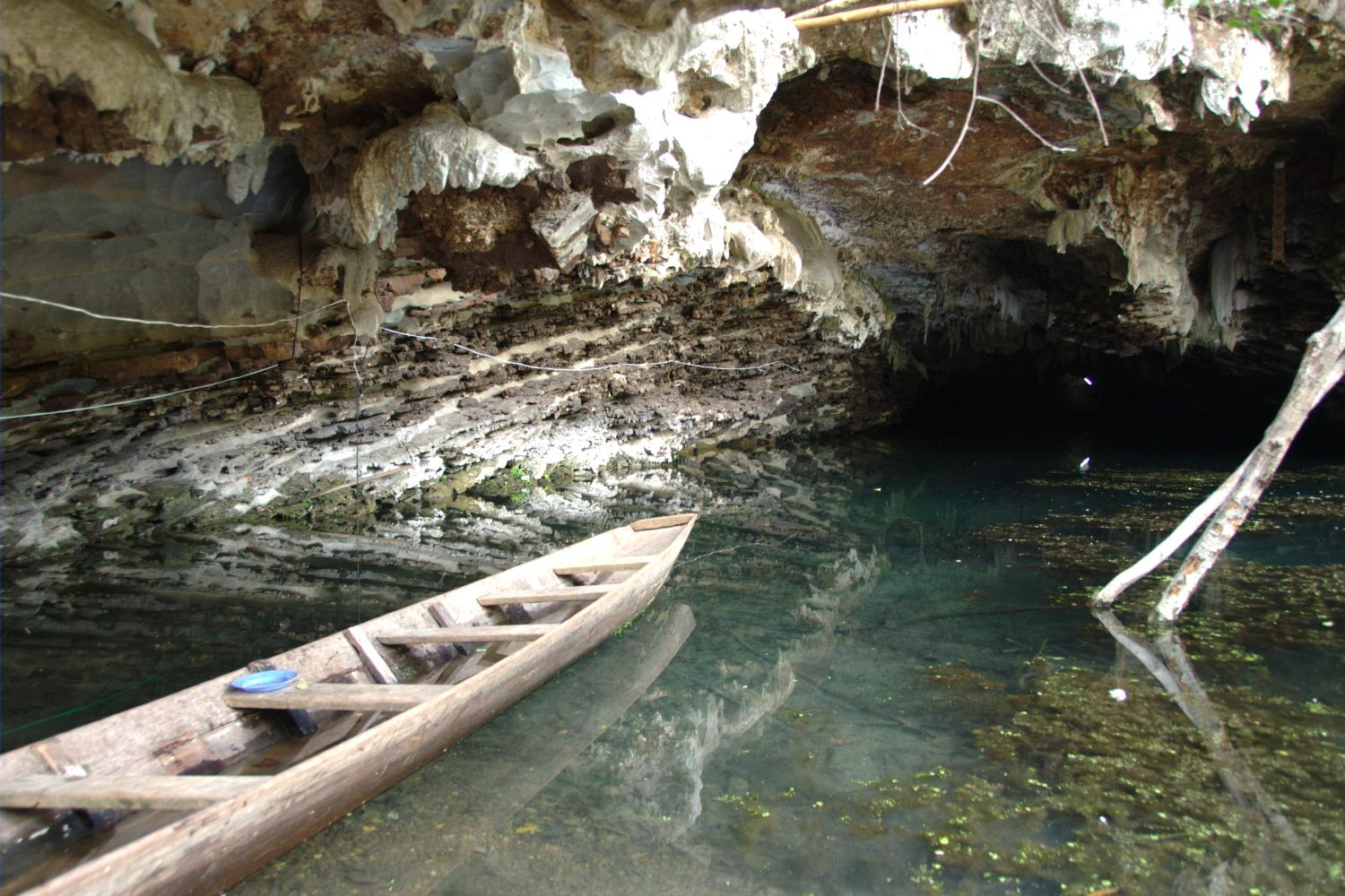 near Tha Khaek, Laos